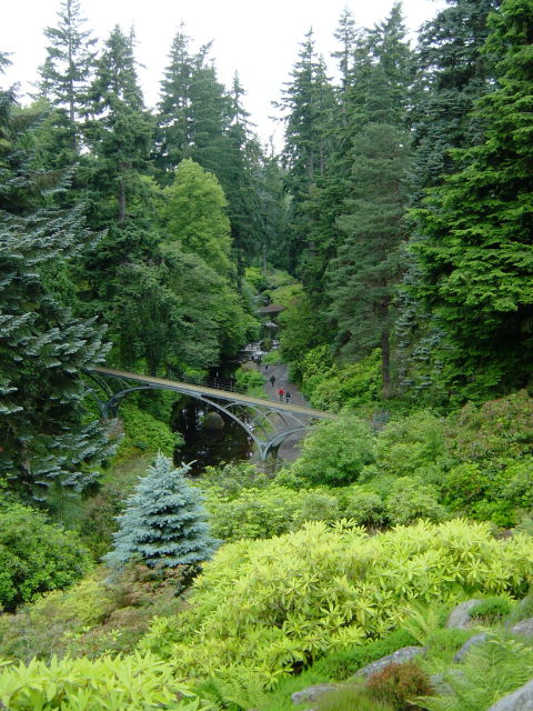 The Burn and footbridge, Cragside. Looking down into the extensive exotic tree plantings of Cragside House. The shelter afforded by the deep valley has allowed many of these trees to achieve a magnificent size best appreciated from the high viewpoint afforded by the house.